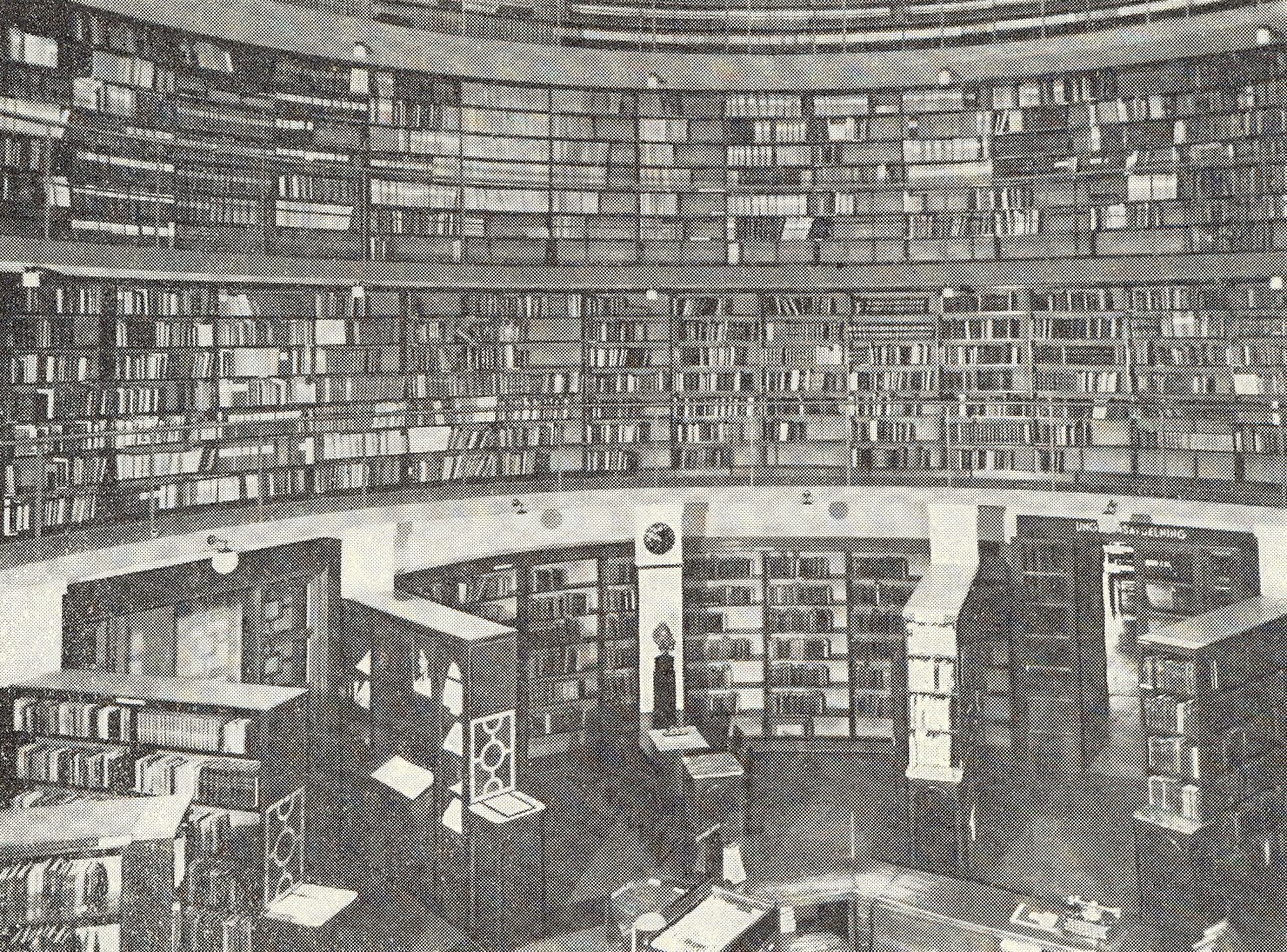 The old main library in Örebro Sweden